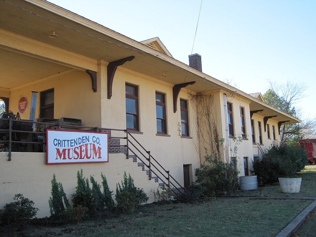 Crittenden County Museum, located in the old train station at 1112 Main Street in Earle, Arkansas. Museum building